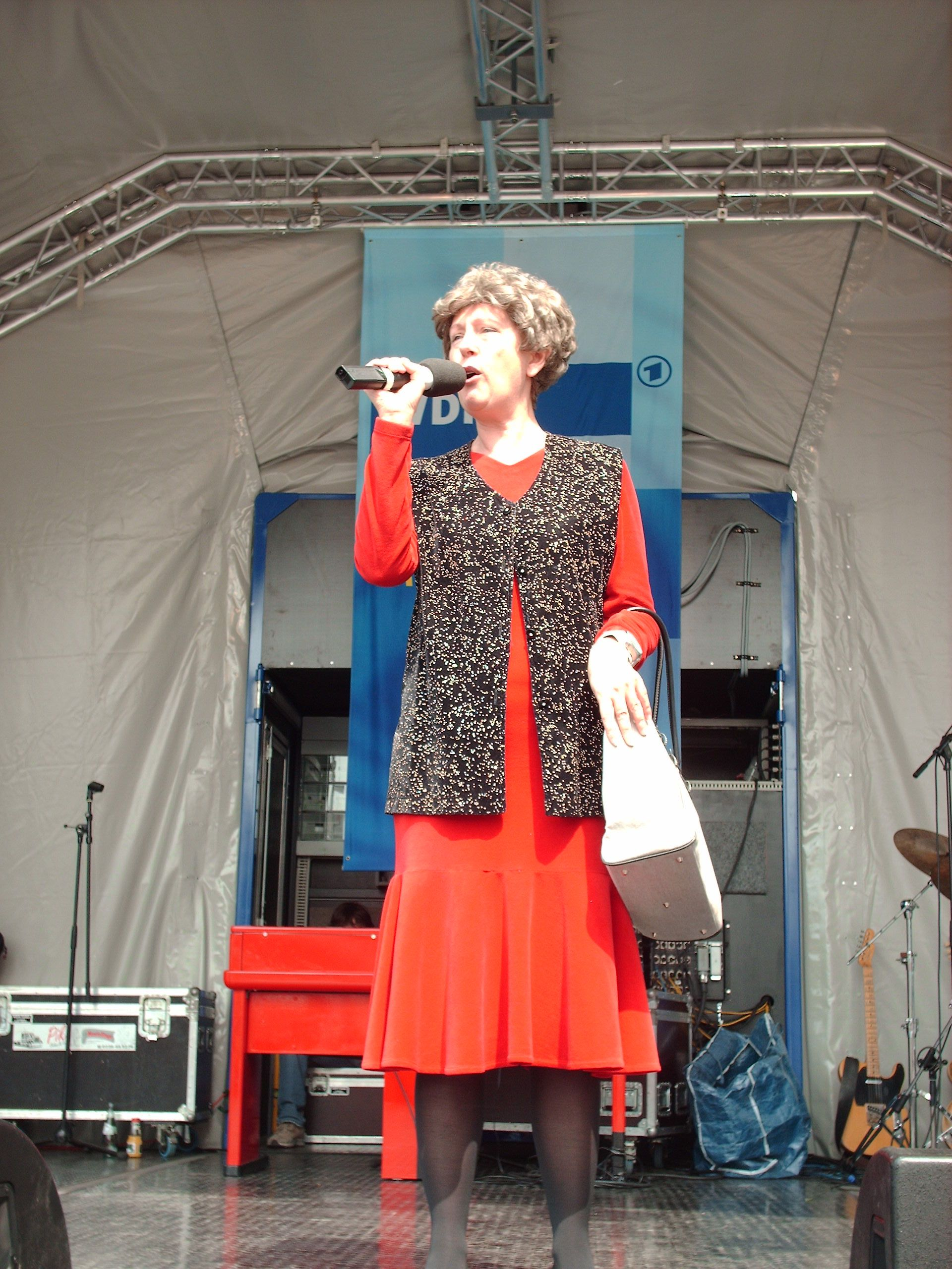 Lioba Albus as Mia Mittelkötter, Siegen, Germany check usage